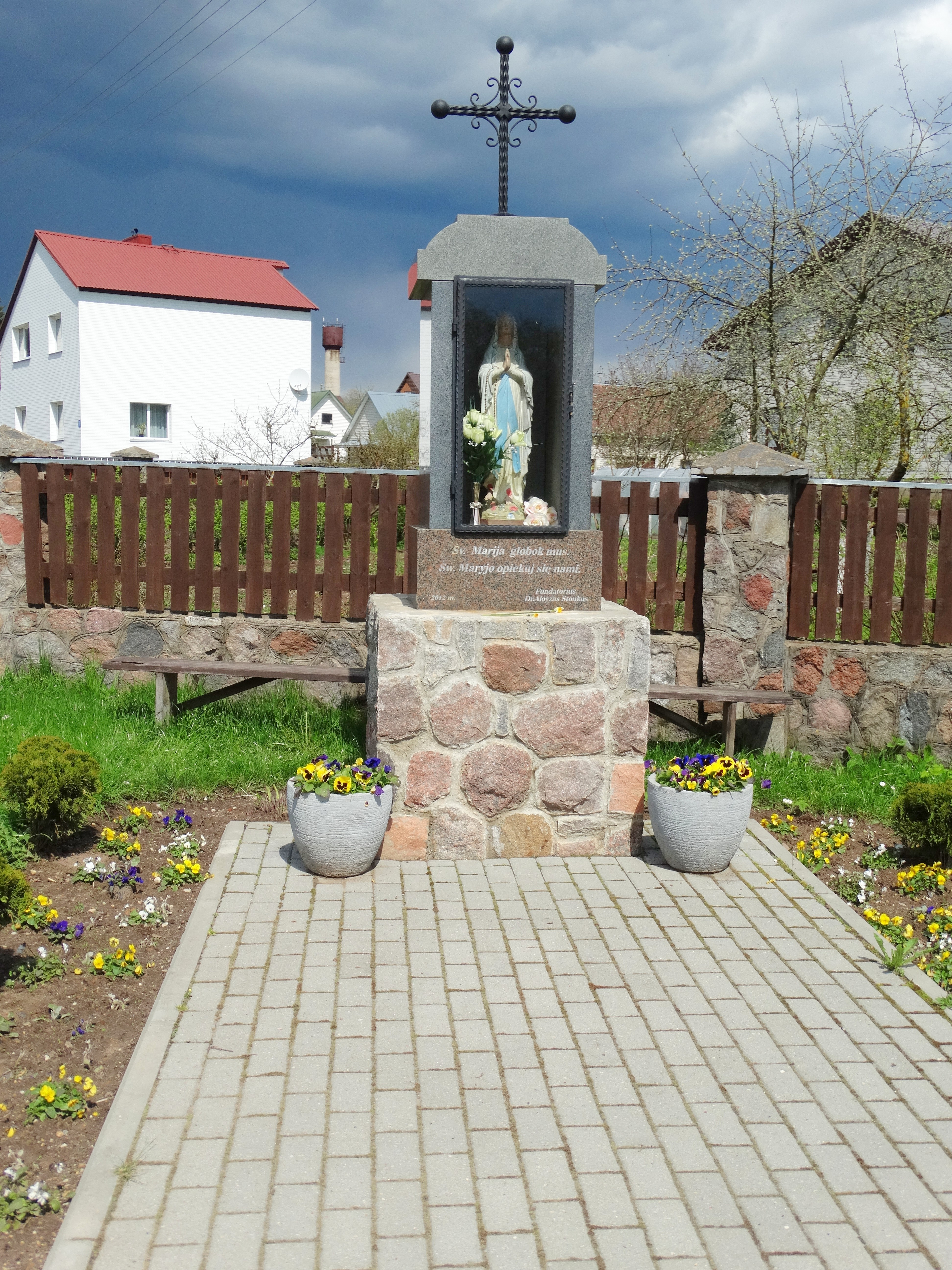 St. Mary statue, Jašiūnai, Šalčininkai District, Lithuania